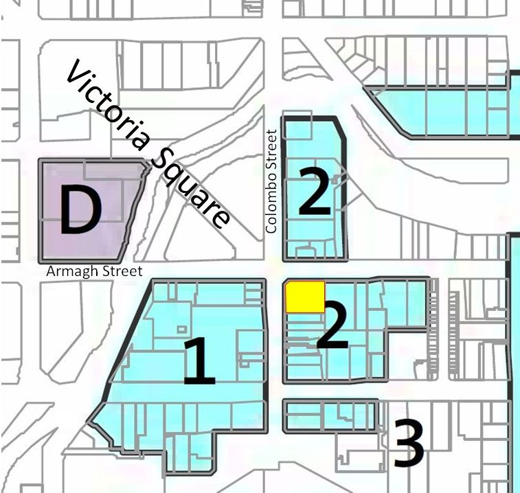 Area around Victoria Square showing planning designations, with the Forsyth Barr Building land highlighted within designation 2 (Performing Arts Precinct).